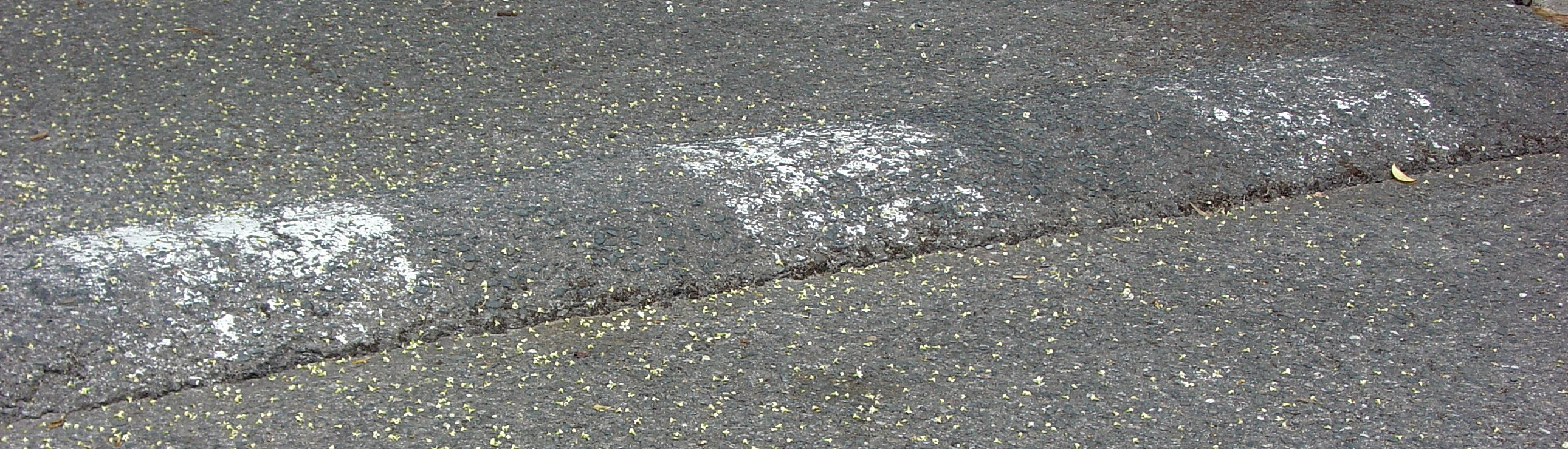 Section of a ashalt speed bump, private road, Adelaide. Taken 4:26pm, 4 February 2005 with a Sony Mavica. Taken by Alex Sims.